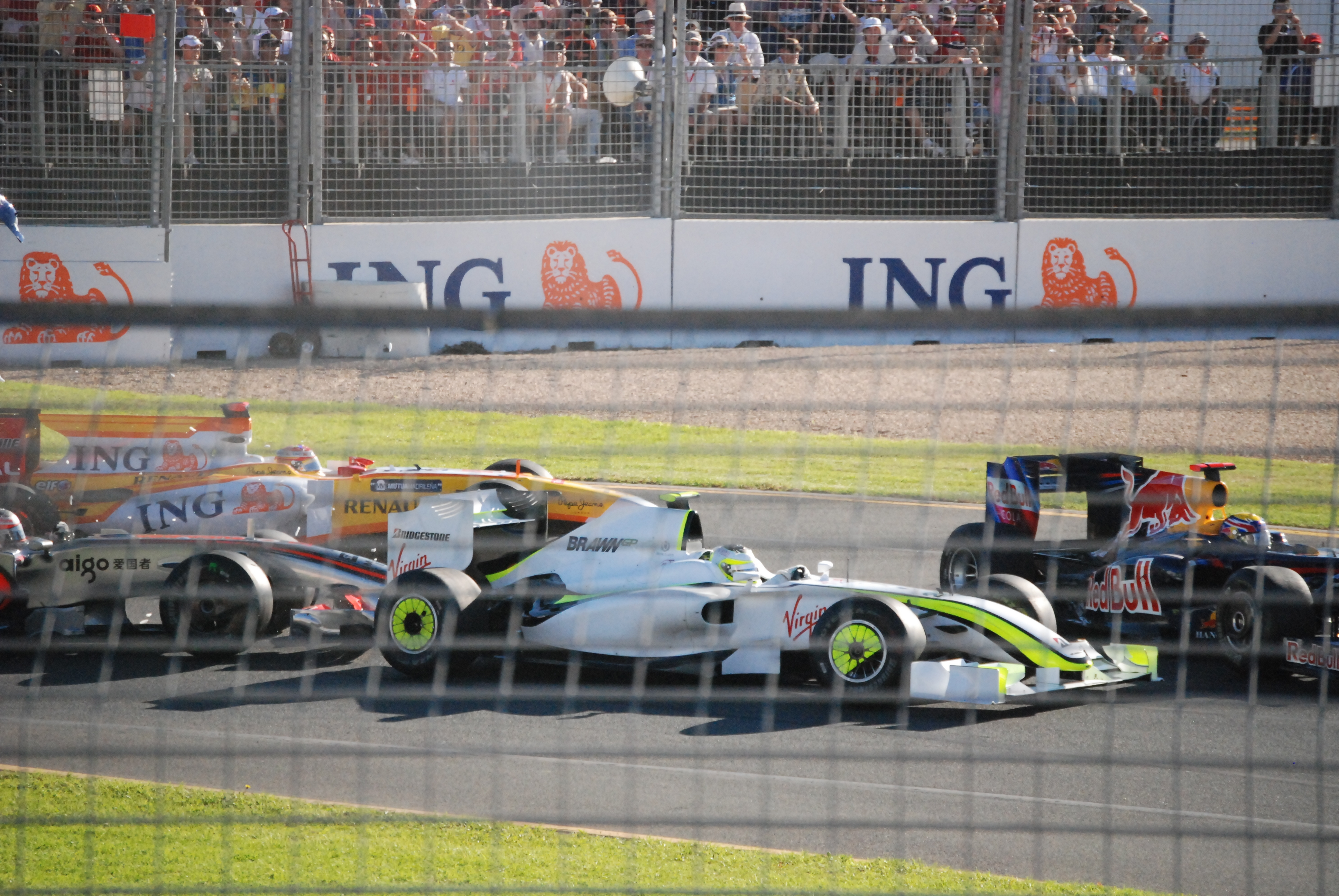 Barrichello at the 2009 Australia